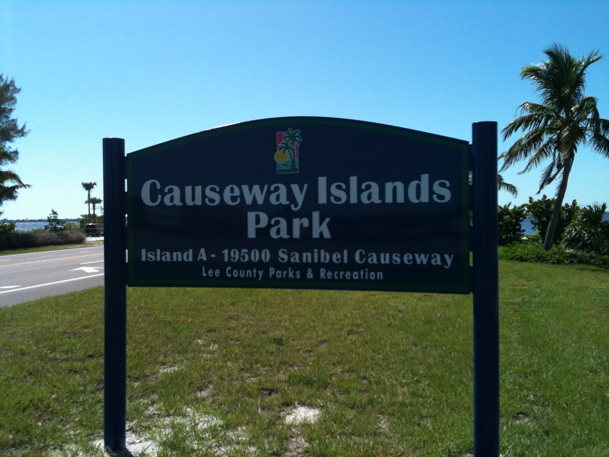 Entrance to Causeway Island park